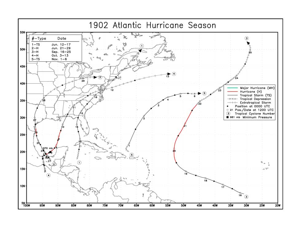 Season summary provided by NOAA of the 1902 Atlantic hurricane season.